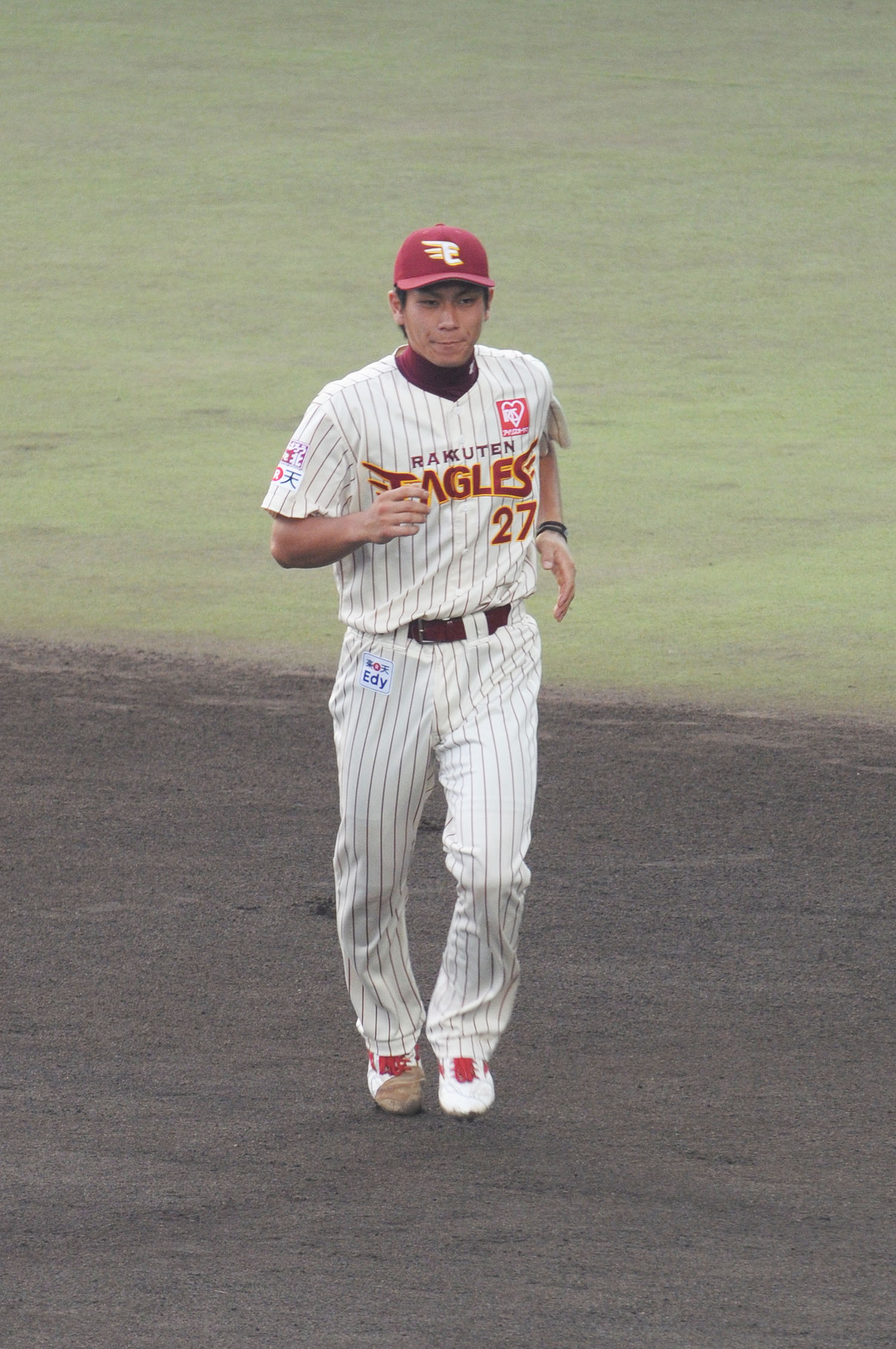 Takero Okajima, catcher of the Tohoku Rakuten Golden Eagles, at Akita Prefectural Baseball Stadium.